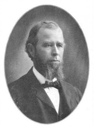 Photograph of Melville Reeves Hopewell, Nebraska lawyer and politician who sevred as lieutenant governor of Nebraska (1907-1911)